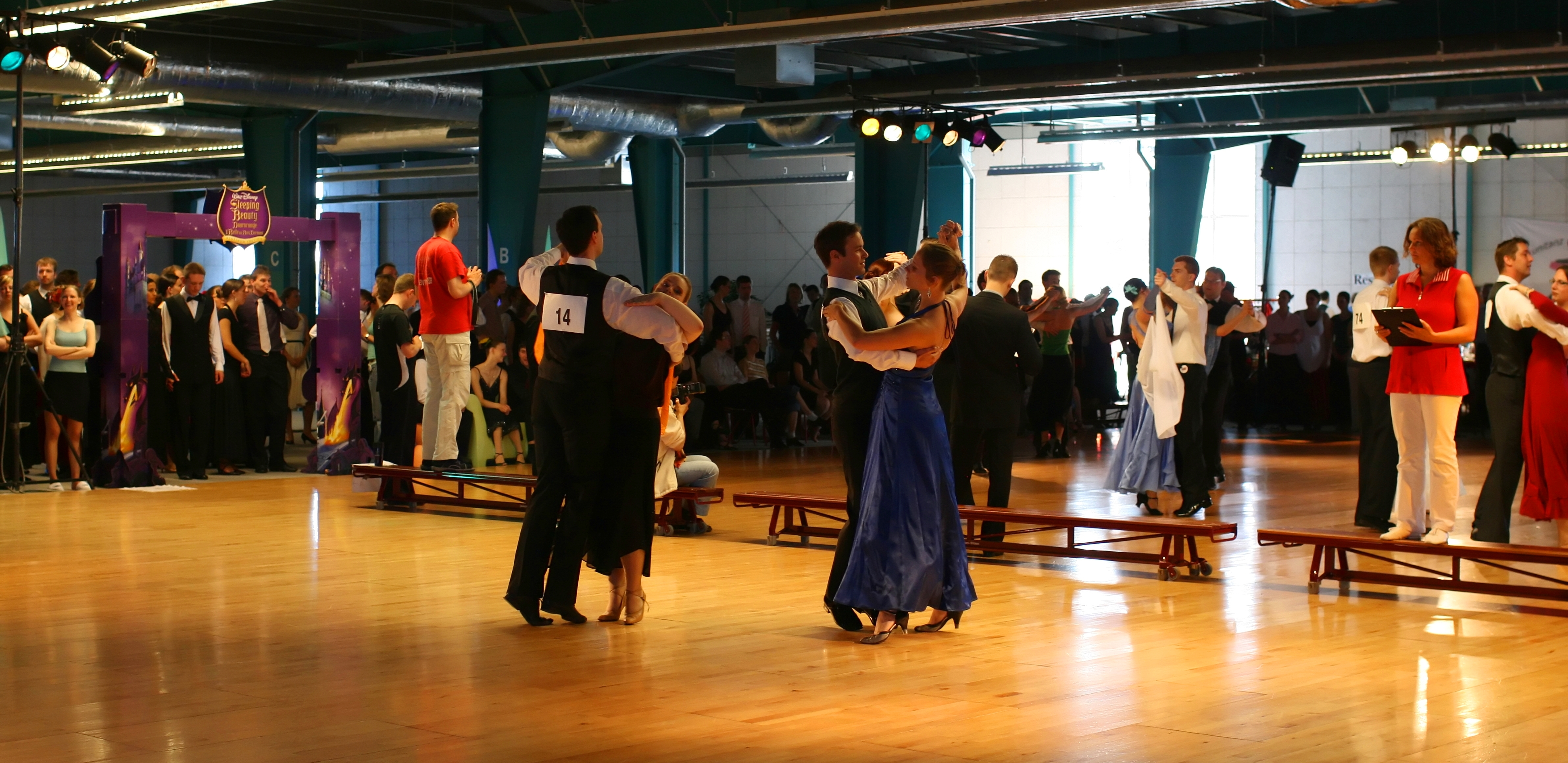 Picture of the 41st European Tournament for Dancing Students (ETDS) held in Groningen, the Netherlands, 29 may - 1 june 2009. The ETDS is a ballroom and latin tournament for students from Europe.